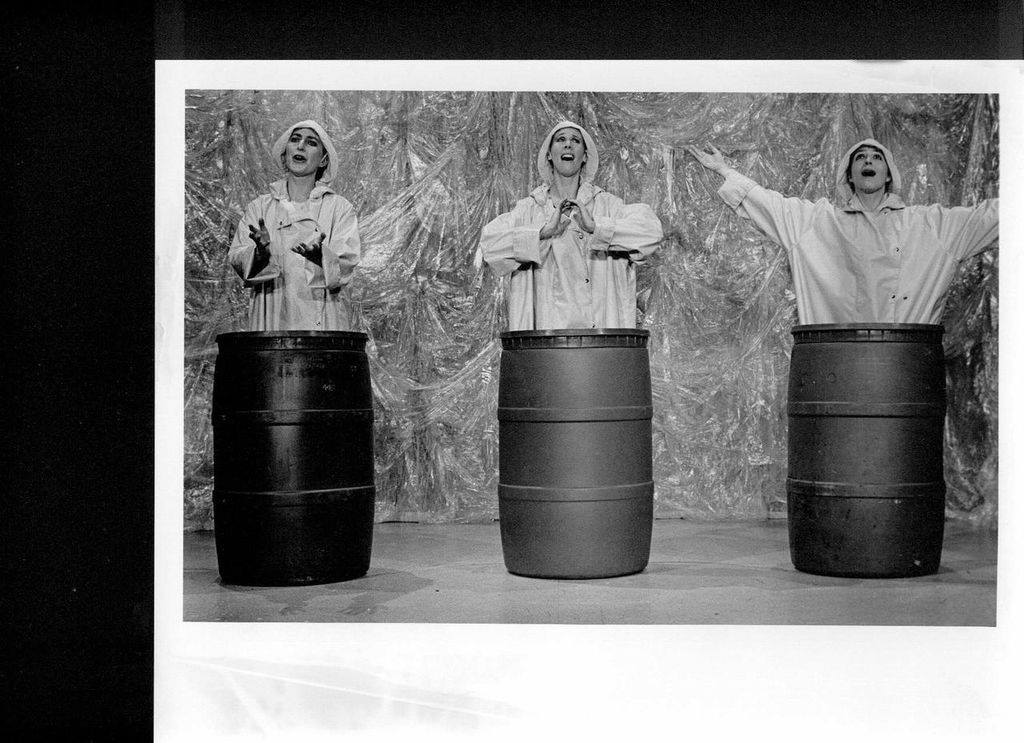 A photograph of the Clichettes in the midst of a performance